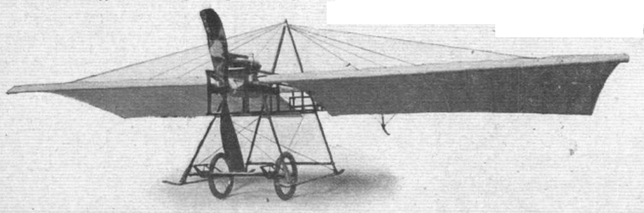 A Hanriot monoplane at the Paris Aero Salon, 25 September to 17 October 1909